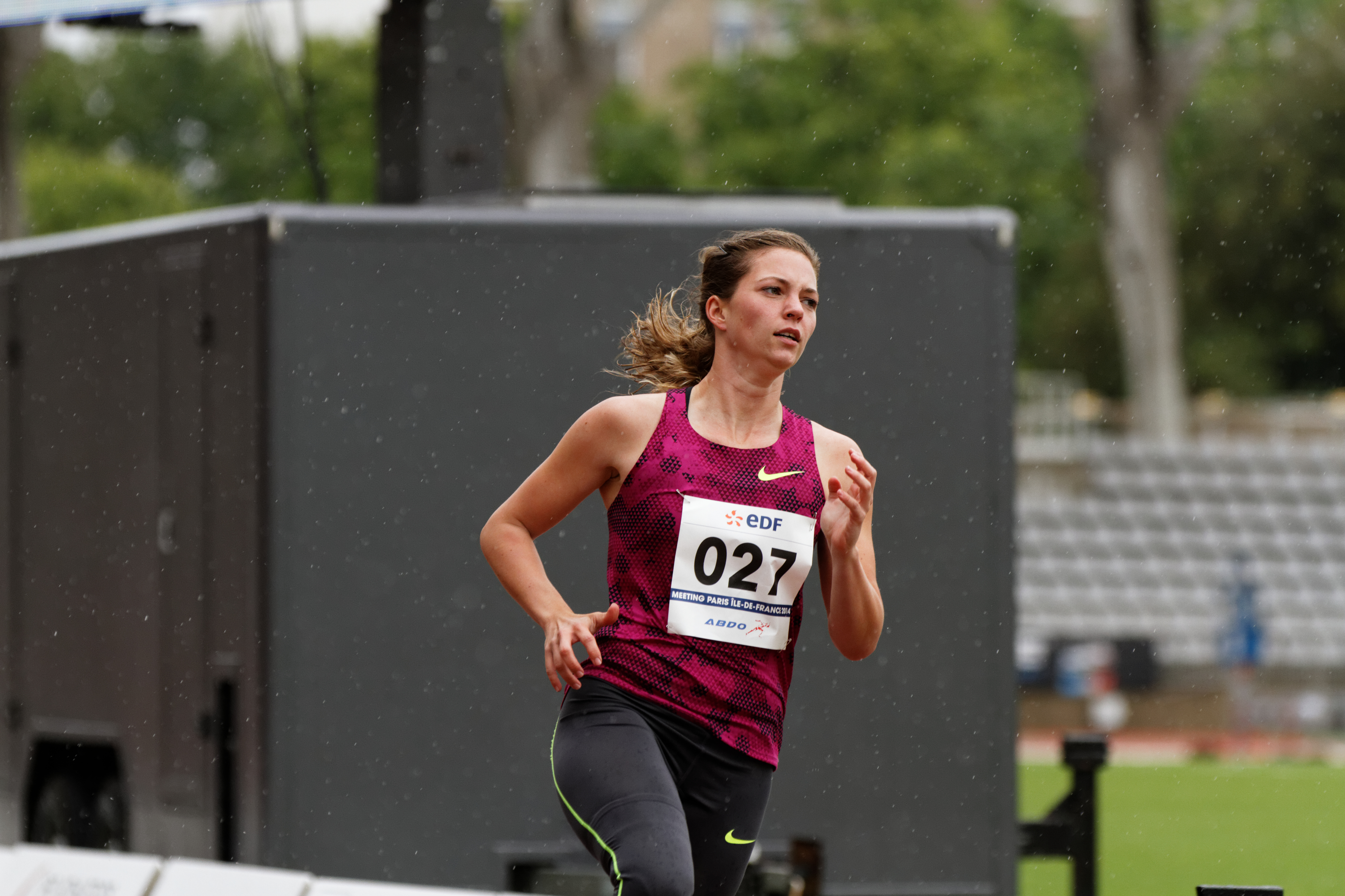 Paris Athletics Paralympic Meeting, June 4th, 2014, Charlety stadium.